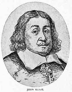 Portrait drawing accompanying an article on John Eliot, “the Indian apostle”, but the source deprecates any claim it has to an authentic likeness saying, “No authentic likeness of him exists.”